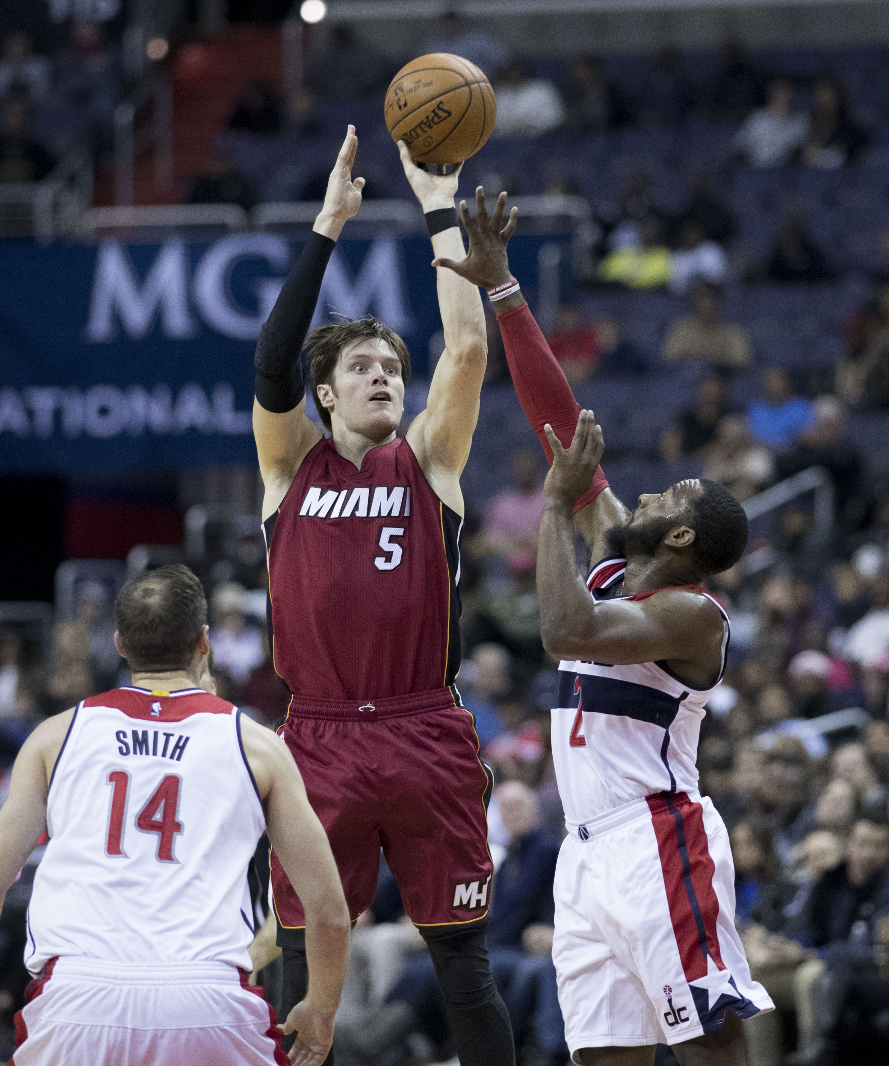 Heat at Wizards 11/19/16